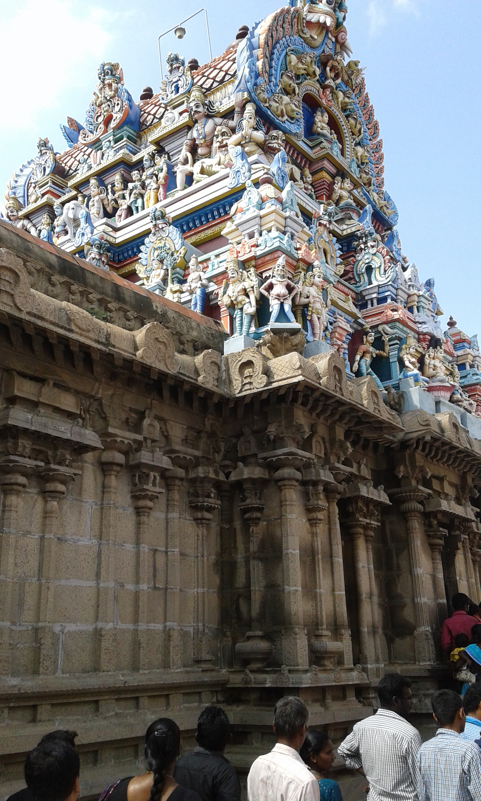 Thirupuliyangudi